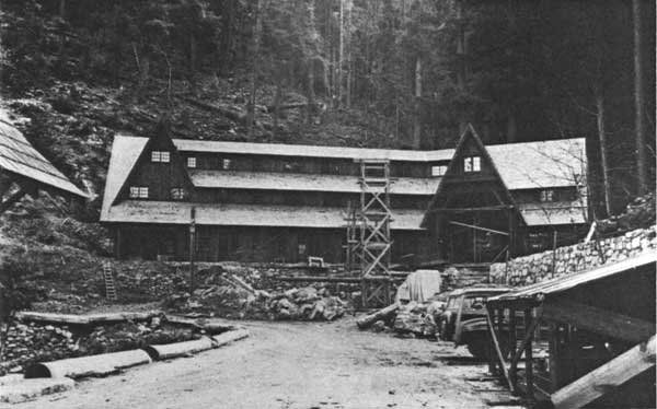 Oregon Caves Chalet at Oregon Caves National Monument, Oregon, United States. Shown here during recostruction in 1942, the chalet lies within the Oregon Caves Historic District, which is listed on the US National Register of Historic Places.